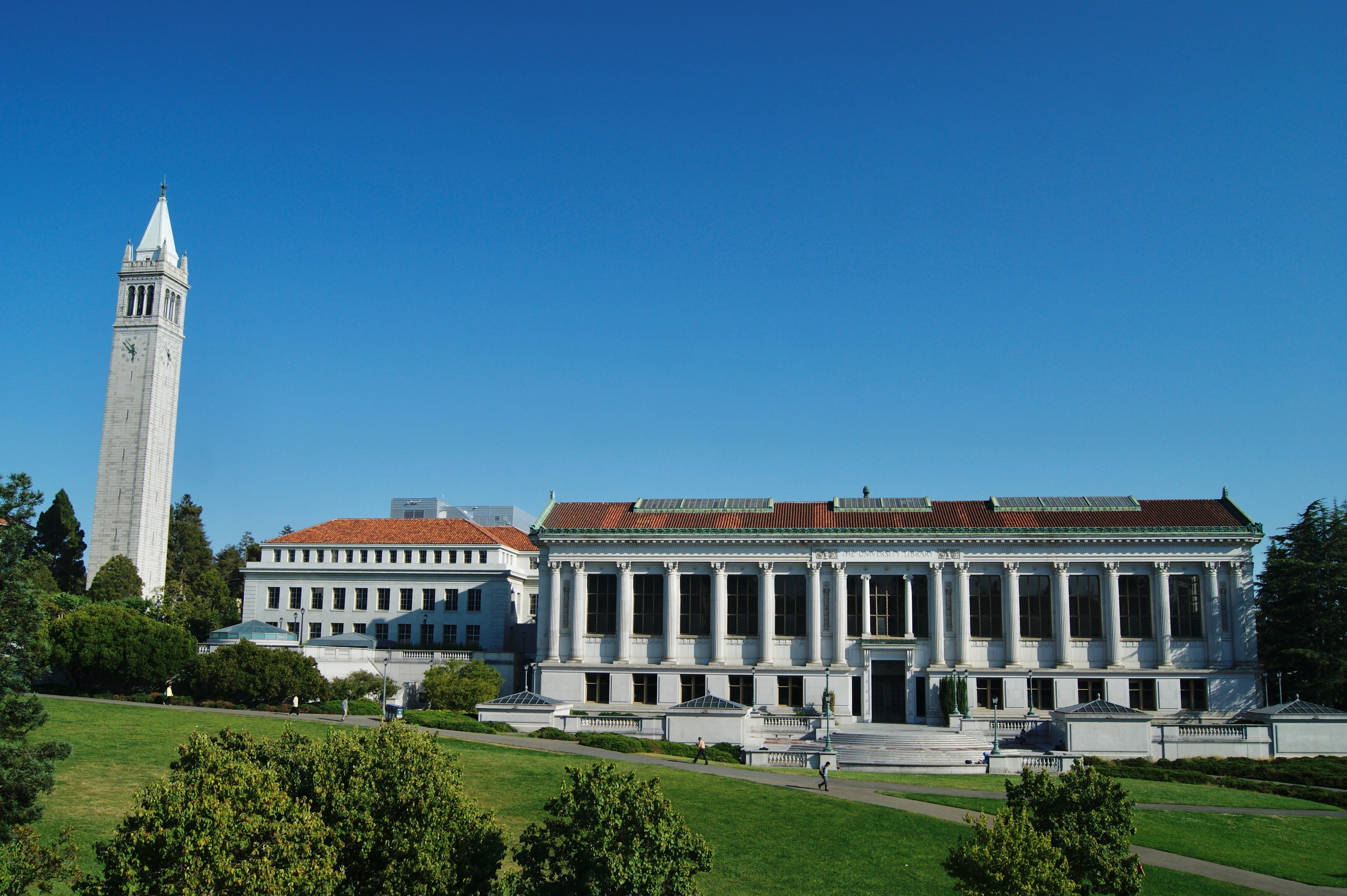 View of Memorial Glade, on the UC Berkeley campus, in July 2018.